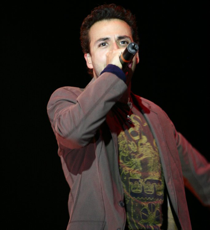 Cropped version